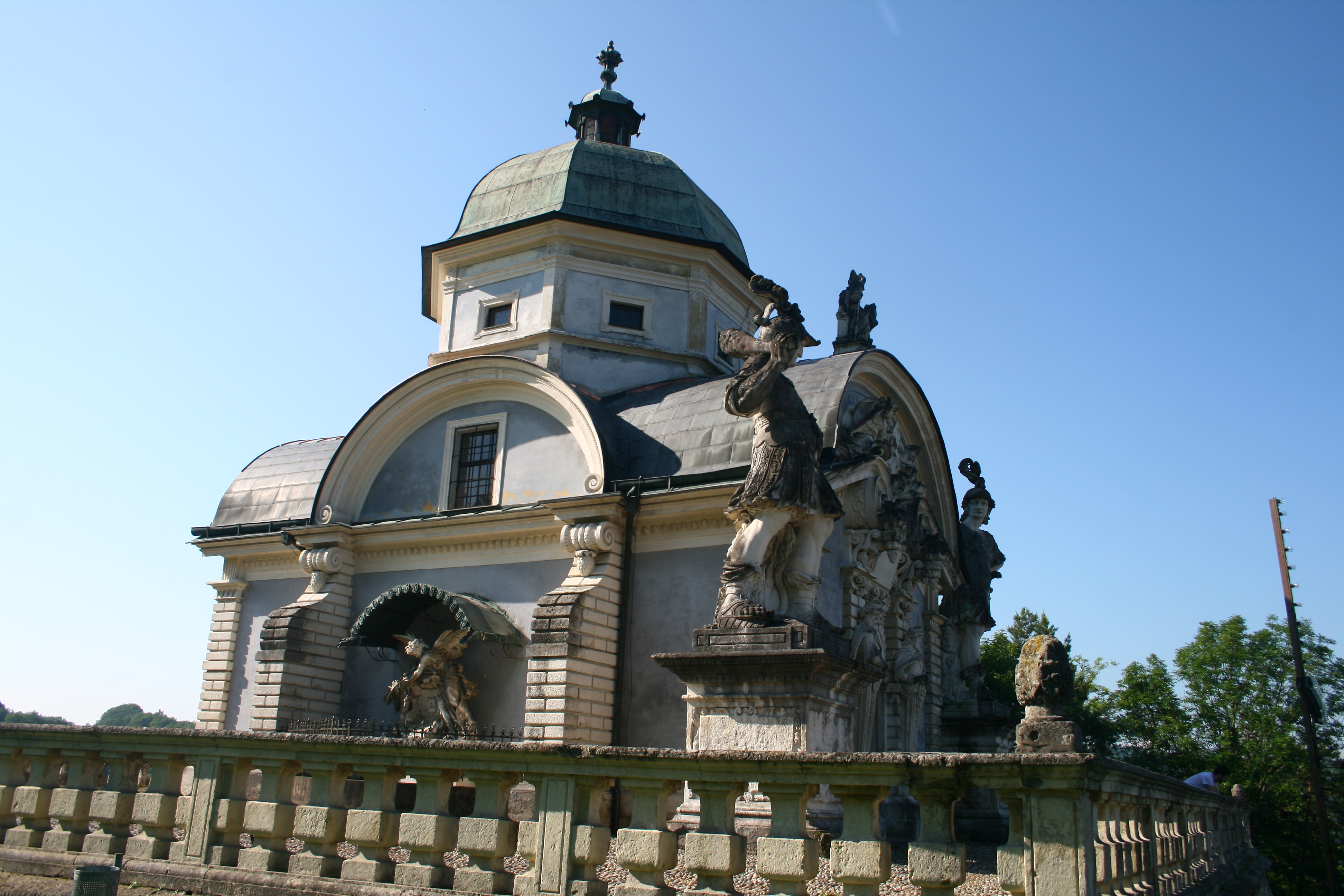 Mausoleum Ruprecht von Eggenberg, Ehrenhausen, Styria, Austria